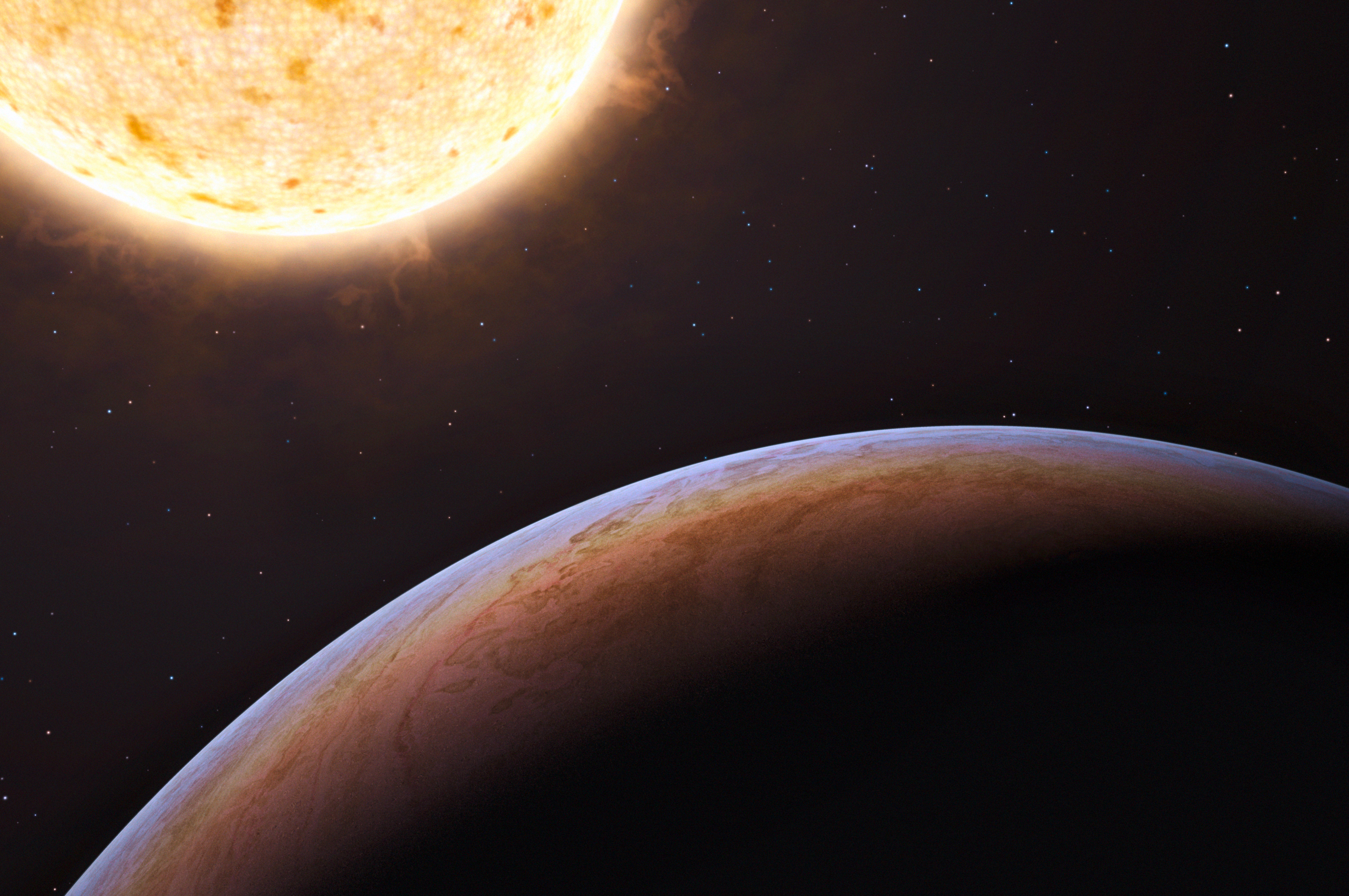 This artist’s impression shows HIP 13044 b, an exoplanet orbiting a star that entered our galaxy, the Milky Way, from another galaxy. This planet of extragalactic origin was detected by a European team of astronomers using the MPG/ESO 2.2-metre telescope at ESO’s La Silla Observatory in Chile. The Jupiter-like planet is particularly unusual, as it is orbiting a star nearing the end of its life and could be about to be engulfed by it, giving clues about the fate of our own planetary system in the distant future.